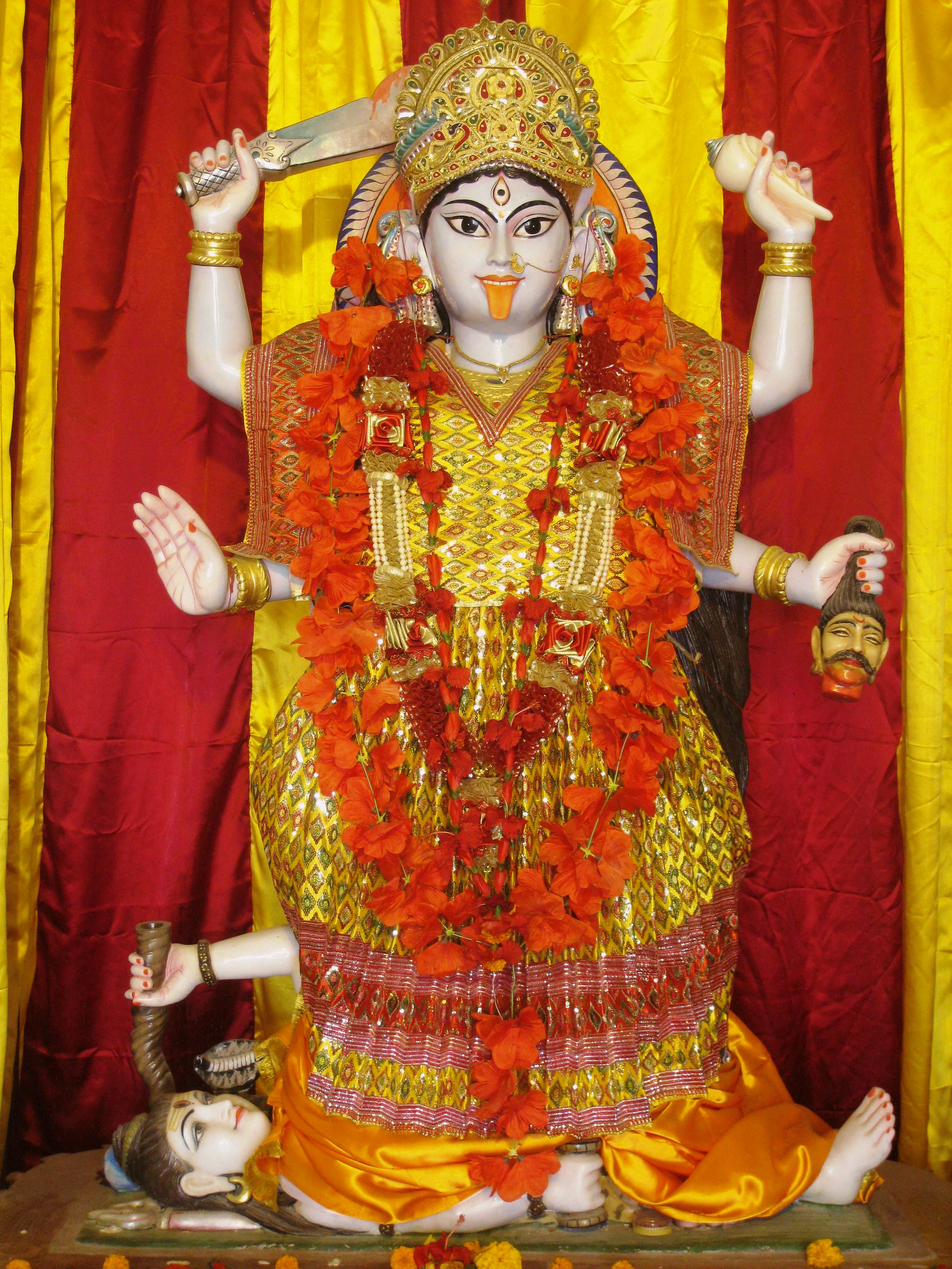 Picture of Karunamayee Kalika Devi